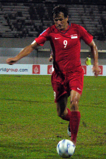 Aleksandar Đurić. I took this picture during the Singapore vs Lebanon international football match.